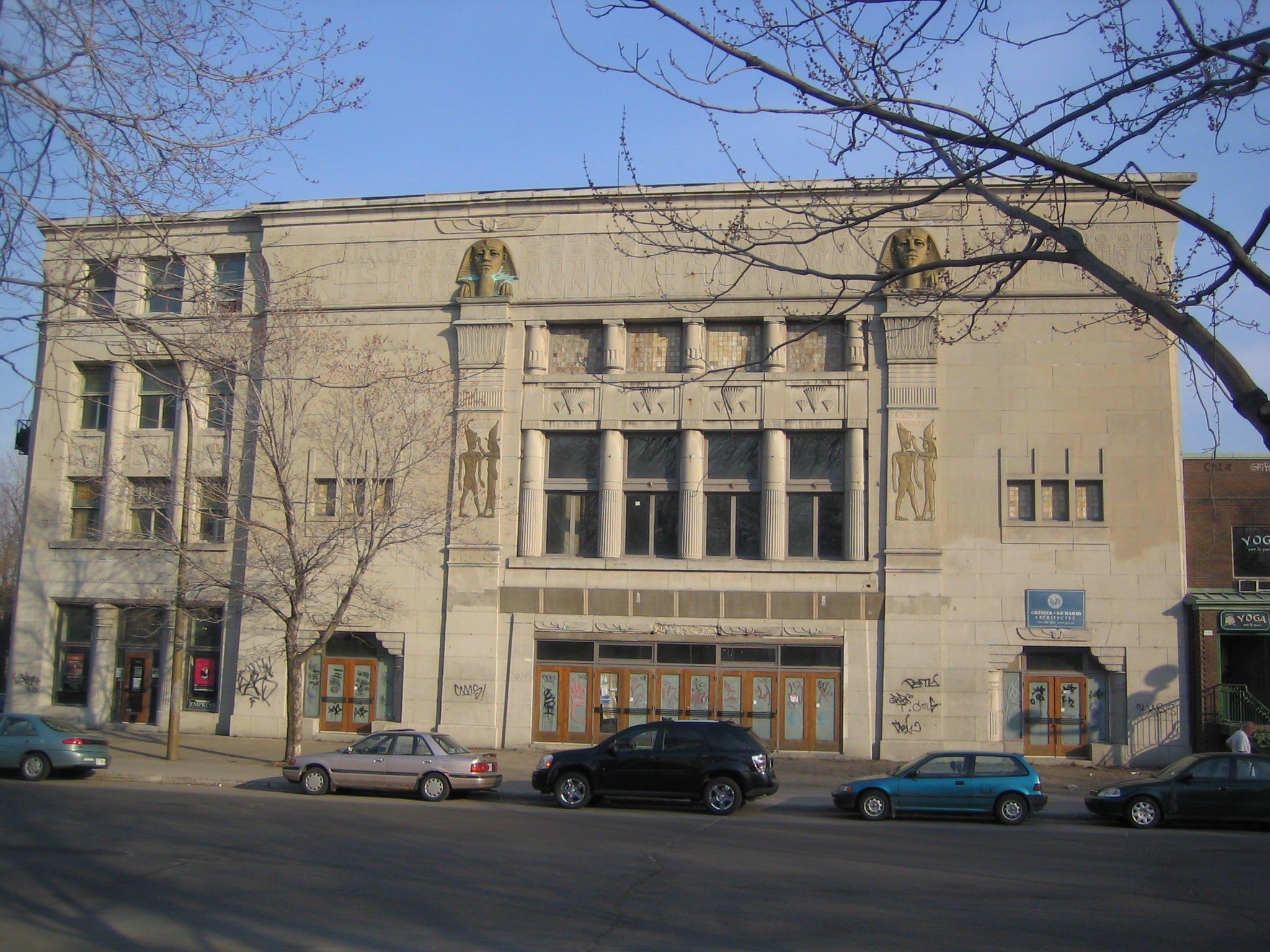 Empress Theatre (also known as Cinema 5), located in Montreal's NDG district.